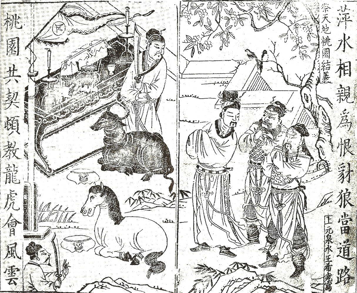 An illustration of the book